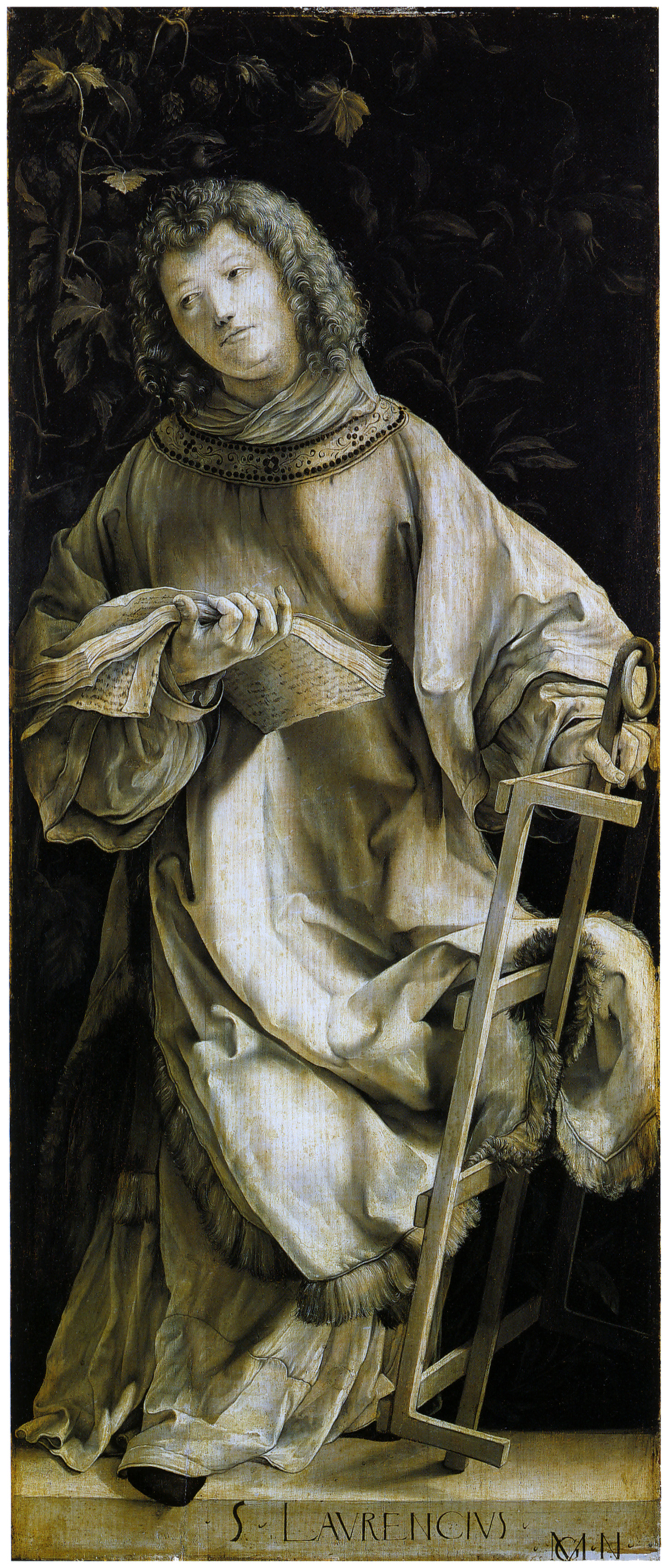 Standing panel: St. Lawrence of Rome